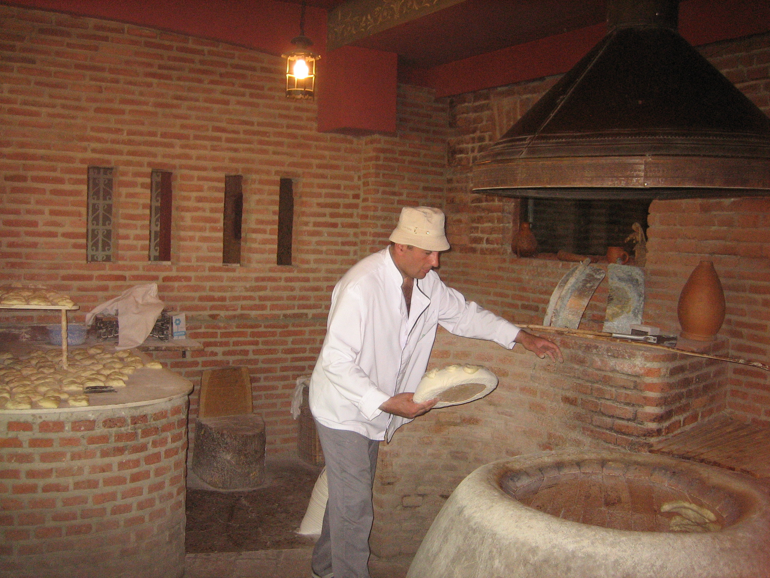 A baker of shoti, a typical Georgian bread, in Tbilisi.